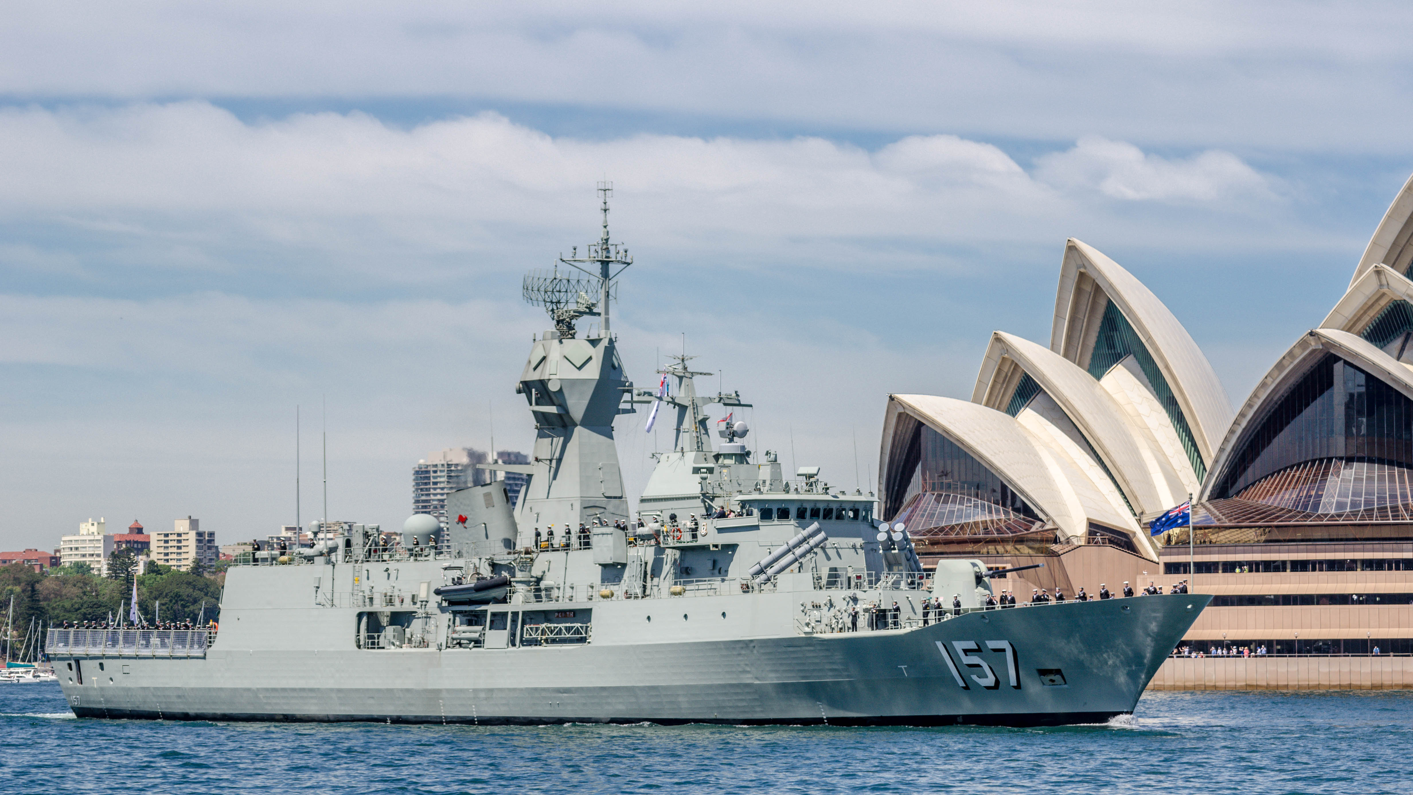 HMAS Perth (FFH 157)